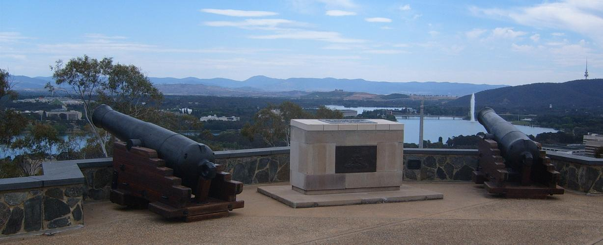 Two RML 64 pounder 71 cwt guns form a memorial to the Royal Regiment of Australian Artillery, on Mount Pleasant overlooking Canberra, capital city of Australia. Gun markings: left - 70-0-0; trunnion: R-G-F No.398 I 1870 right - 70-3-0; trunnion: R-G-F No.407 I 1870 Canberra landmarks (left-right): Lake Burley Griffin Australian Parliament House Australian Centre for Christianity and Culture High Court of Australia Questacon National Library of Australia National Museum of Australia Australian-American Memorial Captain Cook Water Jet Russell Offices Telstra Tower I took this picture in November 2006. Peter Ellis 20:01, 21 November 2006 (UTC)